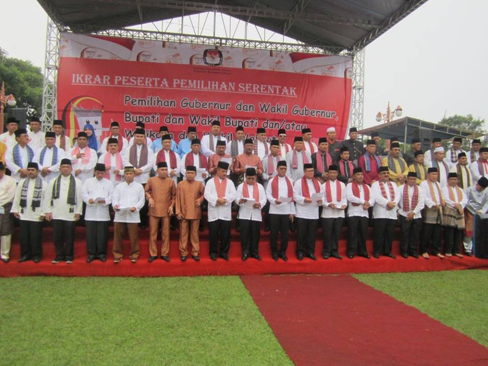 Candidates for regional head in the 2015 simultaneous general election in West Sumatra.